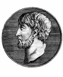 Anaximenes of Miletus, presocratic philosopher.